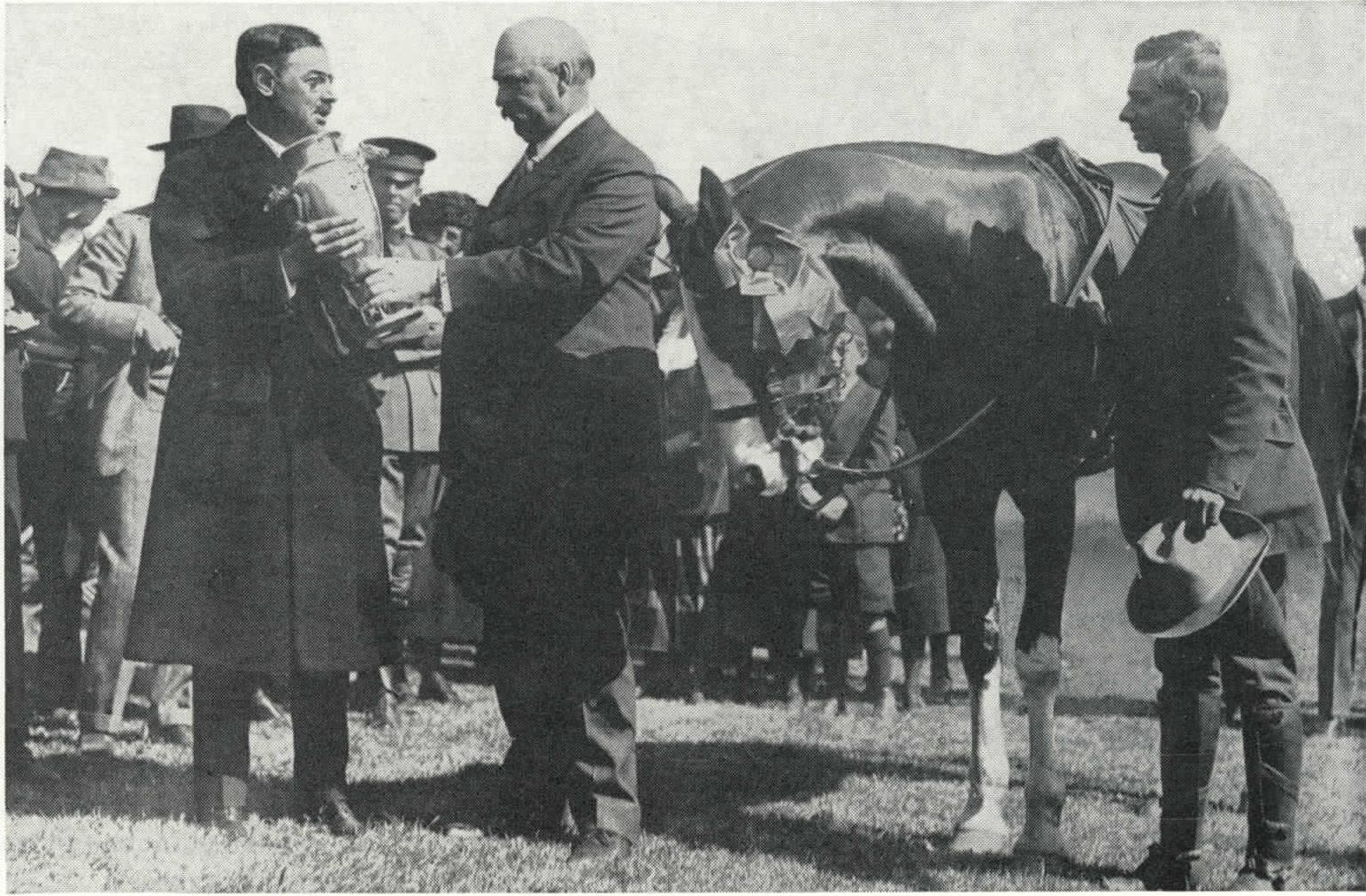 William Robinson Brown of New Hampshire, in early to mid 1900s.